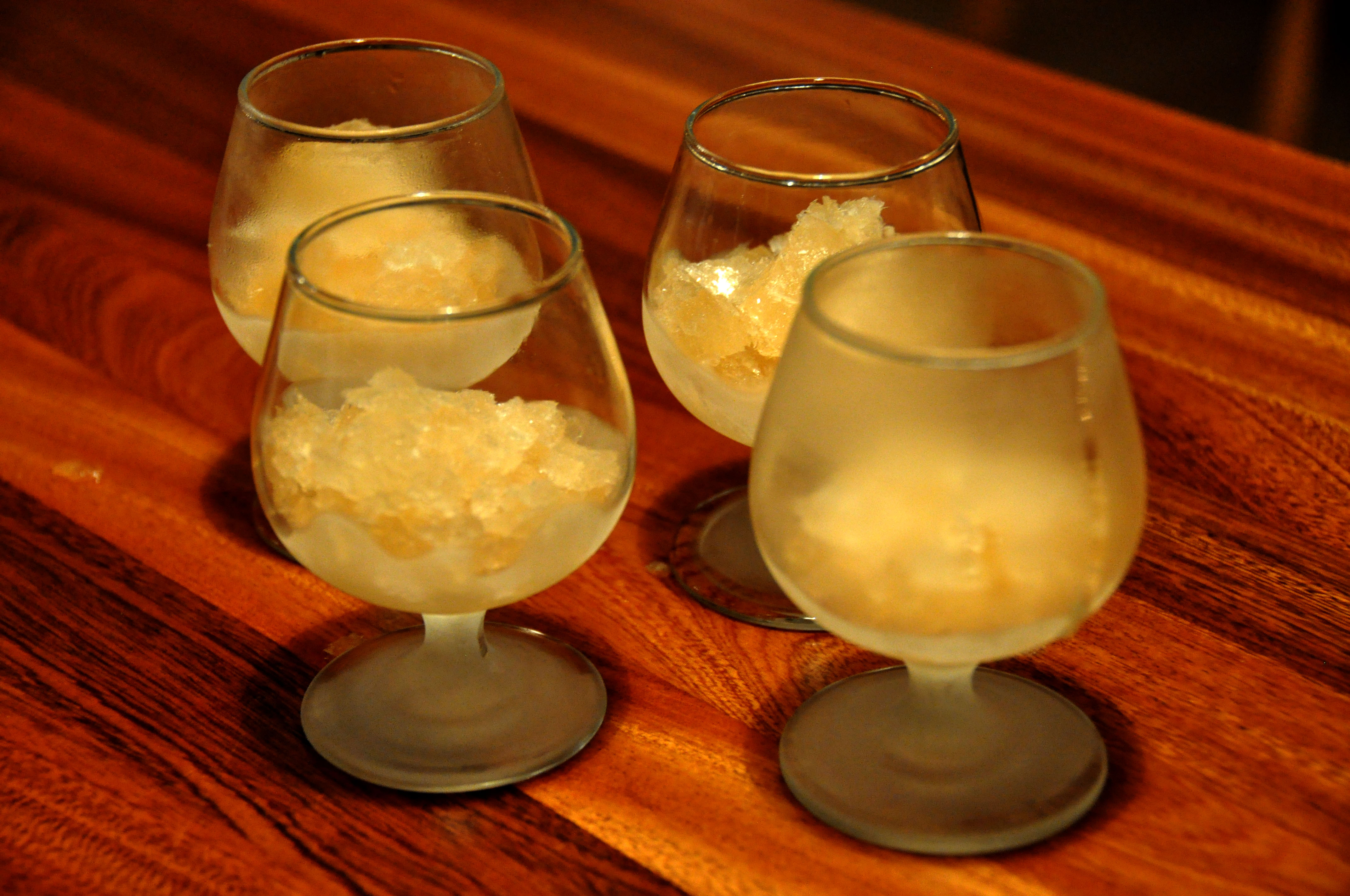 Granité made of apple and saffron aquavit